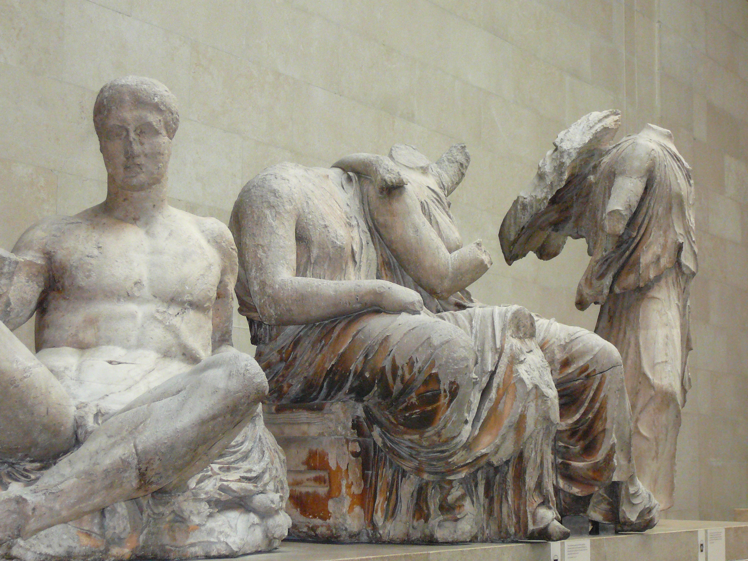 Statuary from the east pediment of the Parthenon. Part of the collection of Parthenon Marbles on display at the British Museum in London.